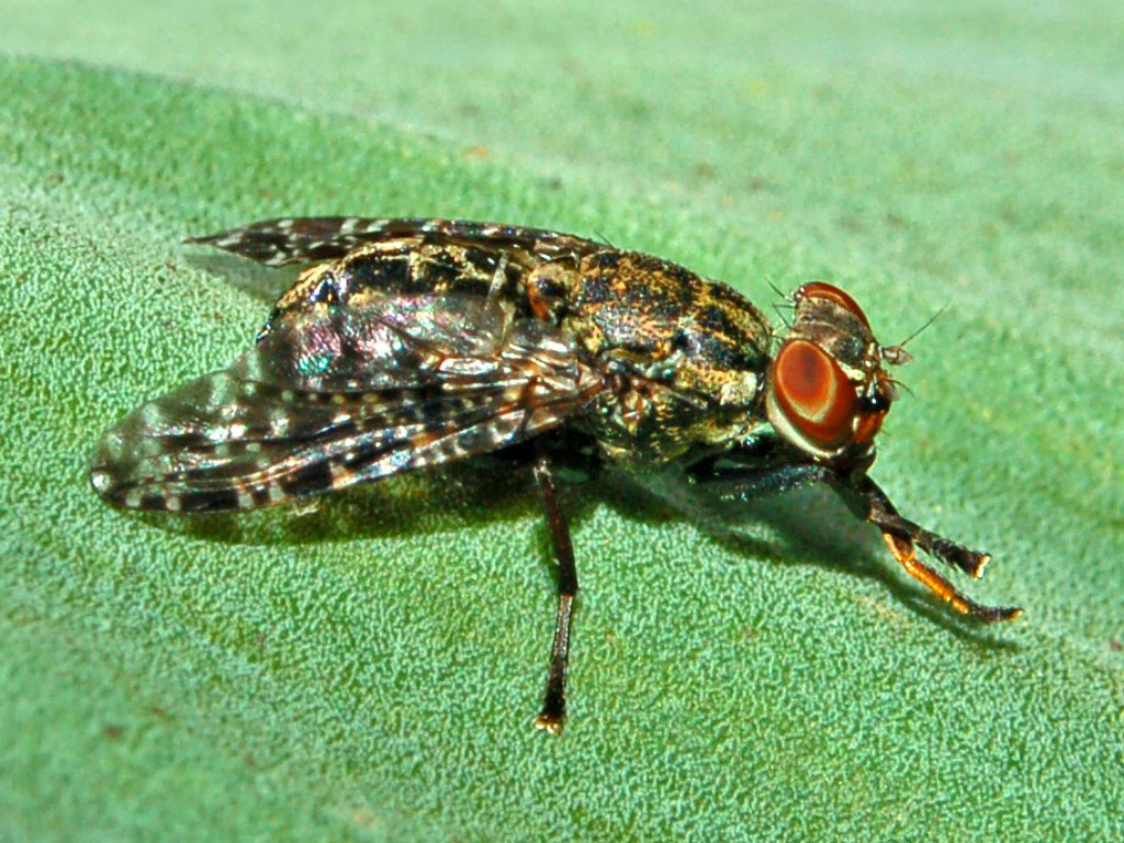 Platystoma lugubre. Varazze, Savona, Italy